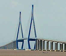 The Jintang Bridge in Zhoushan, Zhejiang Province, China